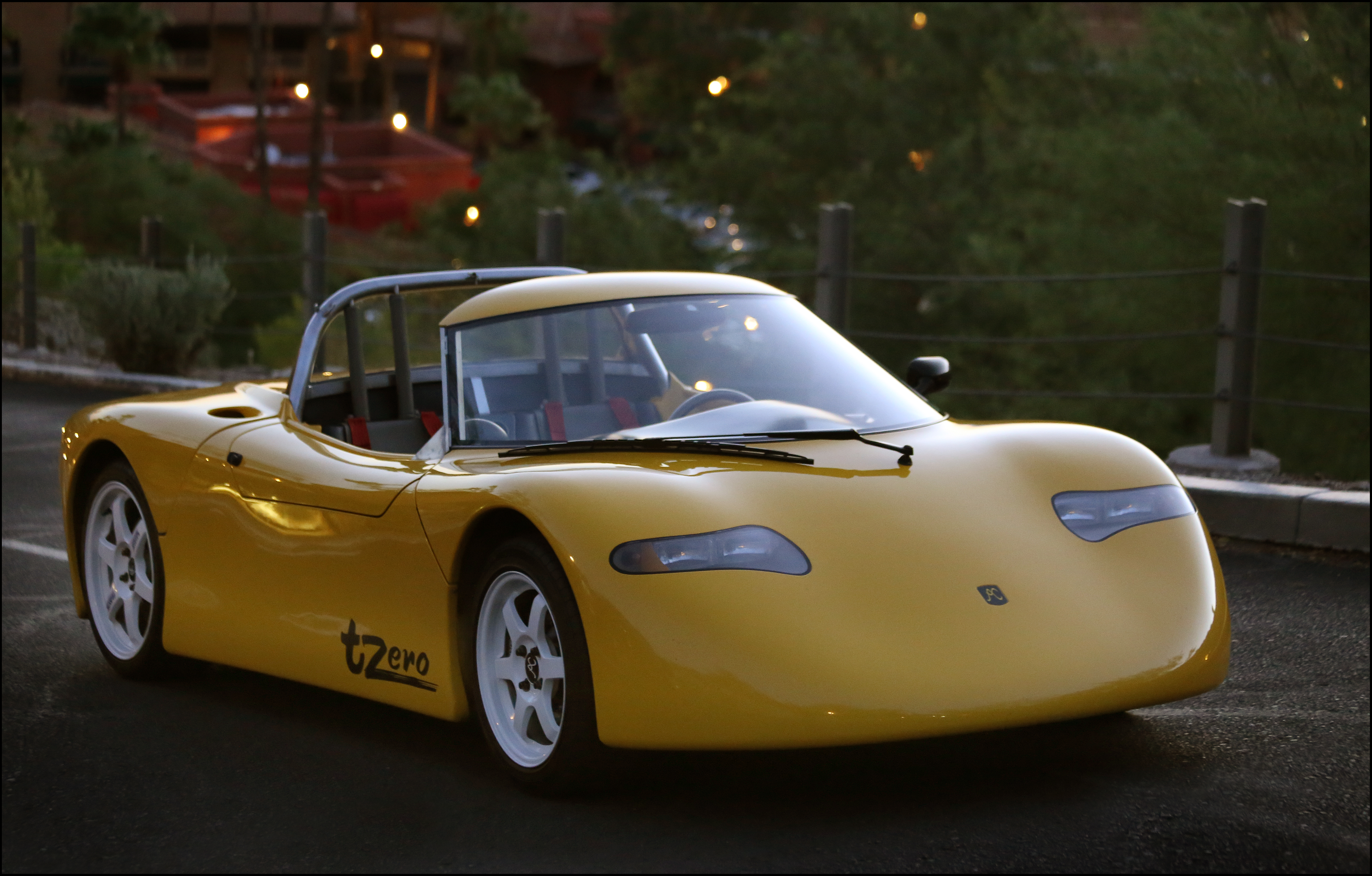 1997 Tzero Electric Vehicle which was the proof of concept vehicle template for the Tesla Roadster.